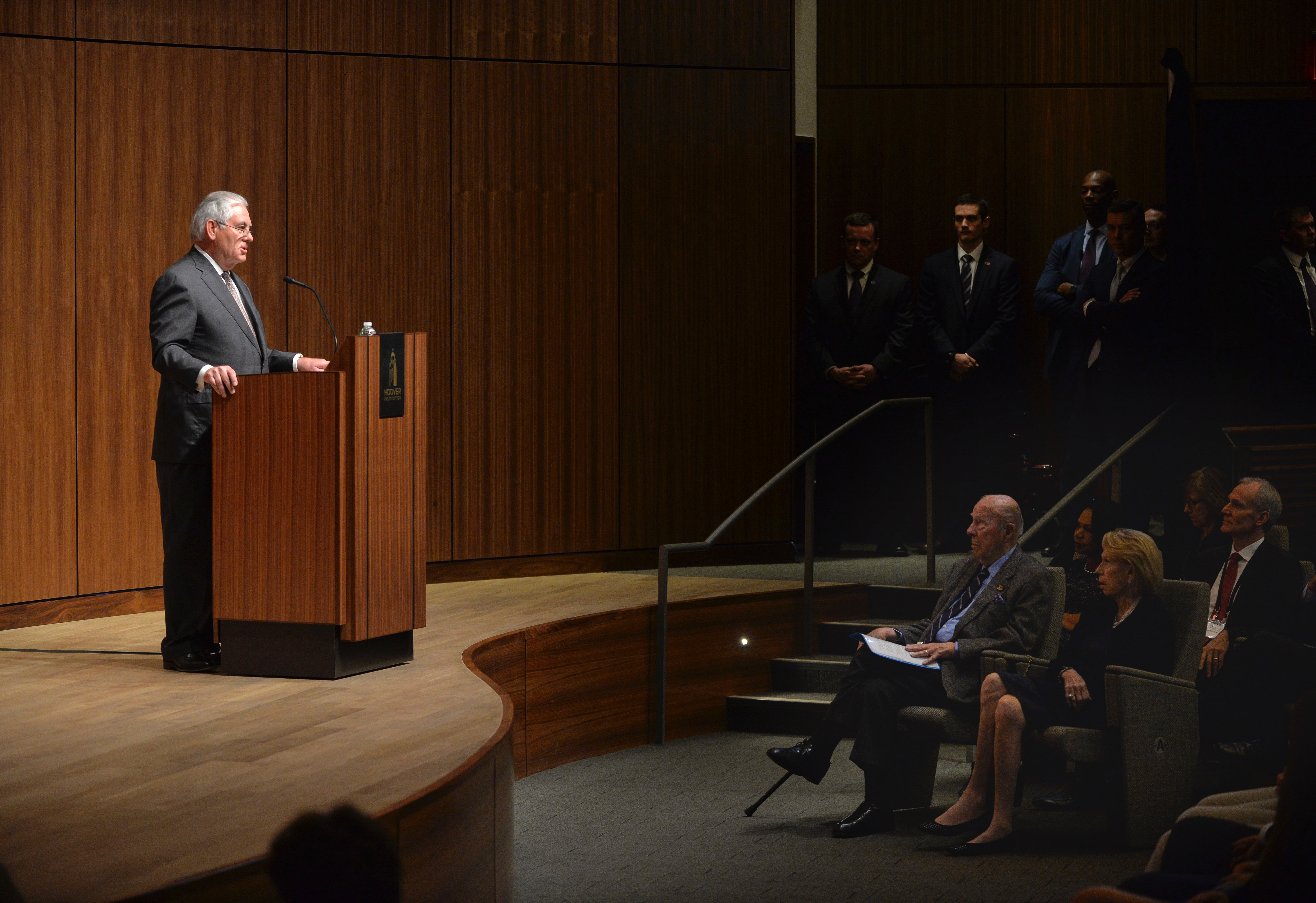 U.S. Secretary of State Rex Tillerson delivers remarks on the Way Forward for the United States regarding Syria, at the Hoover Institute, Stanford University, in Stanford, California on January 17, 2018. [State Department Photo/ Public Domain]